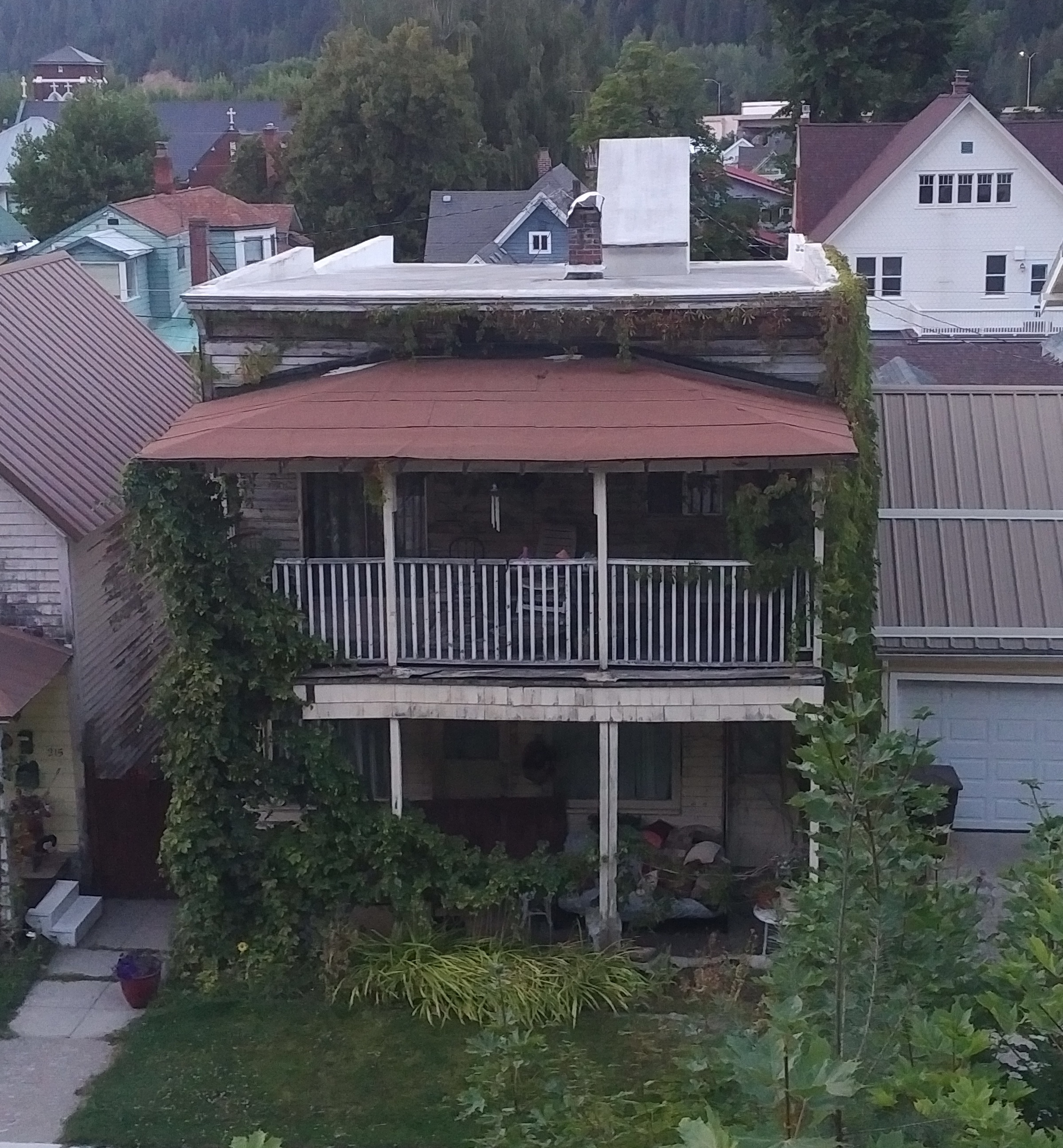 217 Bank Street in Wallace, Idaho (childhood home of Lana Turner).